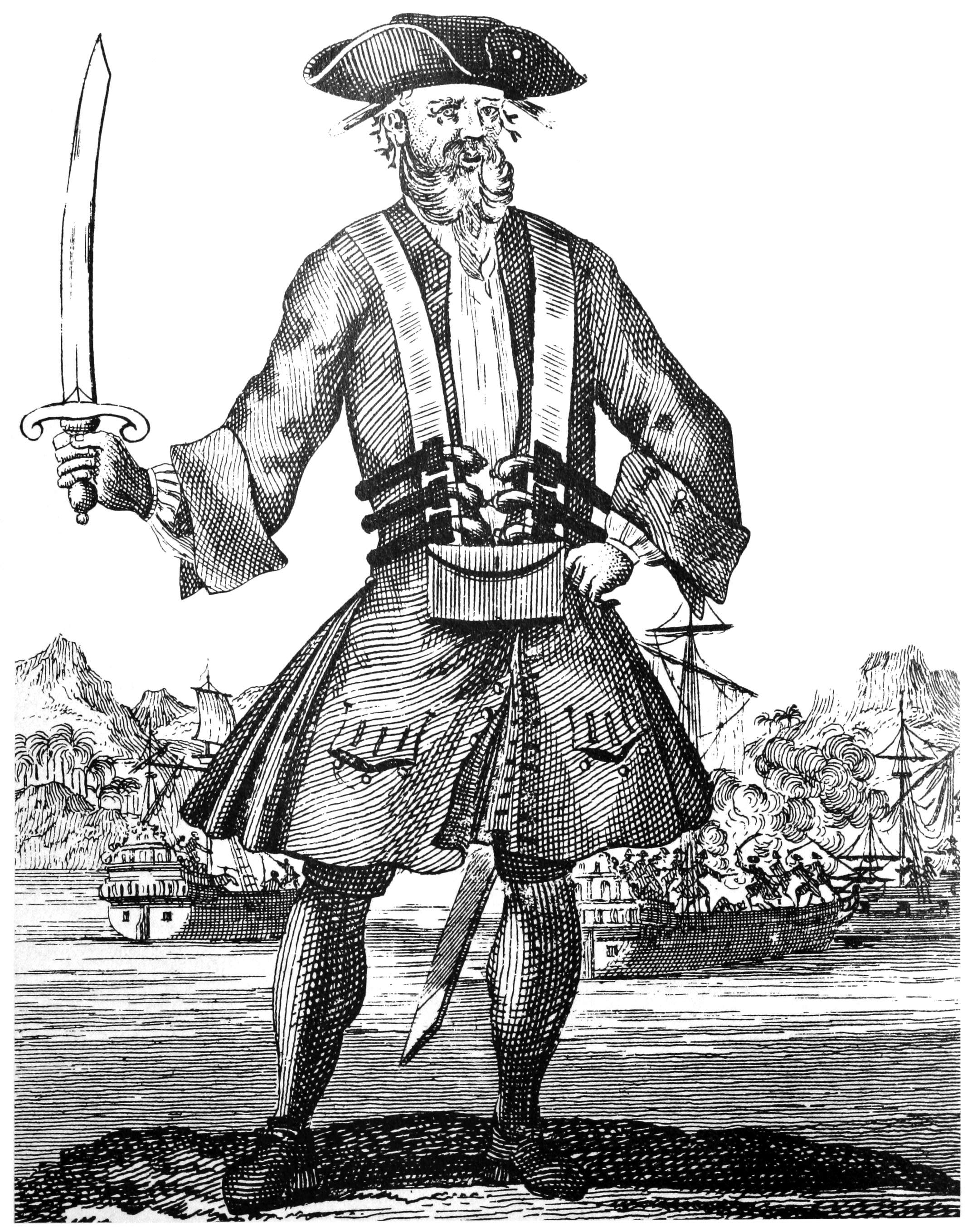 Edward Teach, originally from an engraving by Benjamin Cole in A General History of the Robberies and Murders of the Most Notorius Pirates (1724).